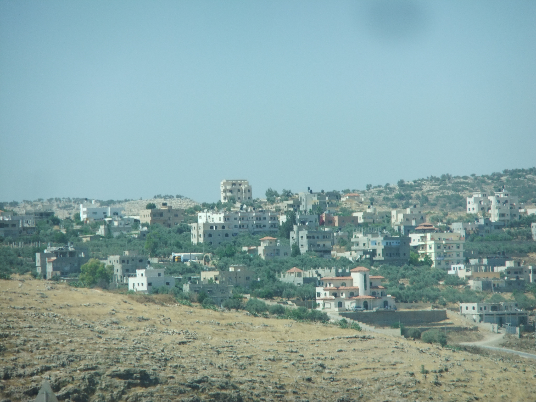 Shuqba